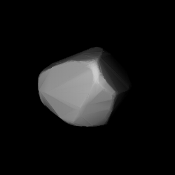 3D convex shape model of 1623 Vivian, computed using light curve inversion techniques. J. Hanuš, J. Ďurech, M. Brož, B. D. Warner (June 2011). "A study of asteroid pole-latitude distribution based on an extended set of shape models derived by the lightcurve inversion method". Astronomy and Astrophysics 530: A134. ISSN 0004-6361. arXiv